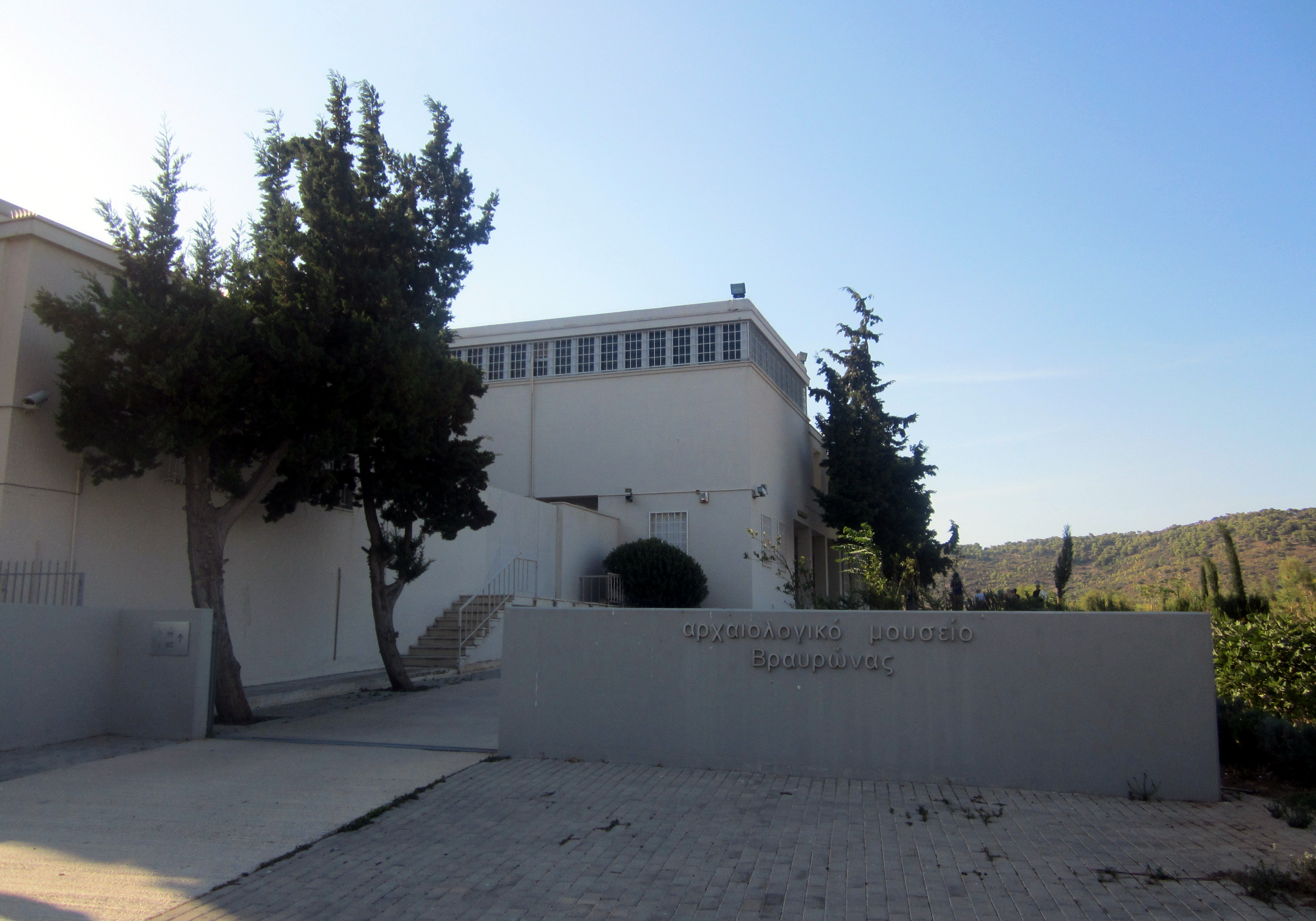 Archaeological Museum of Brauron, Greece.